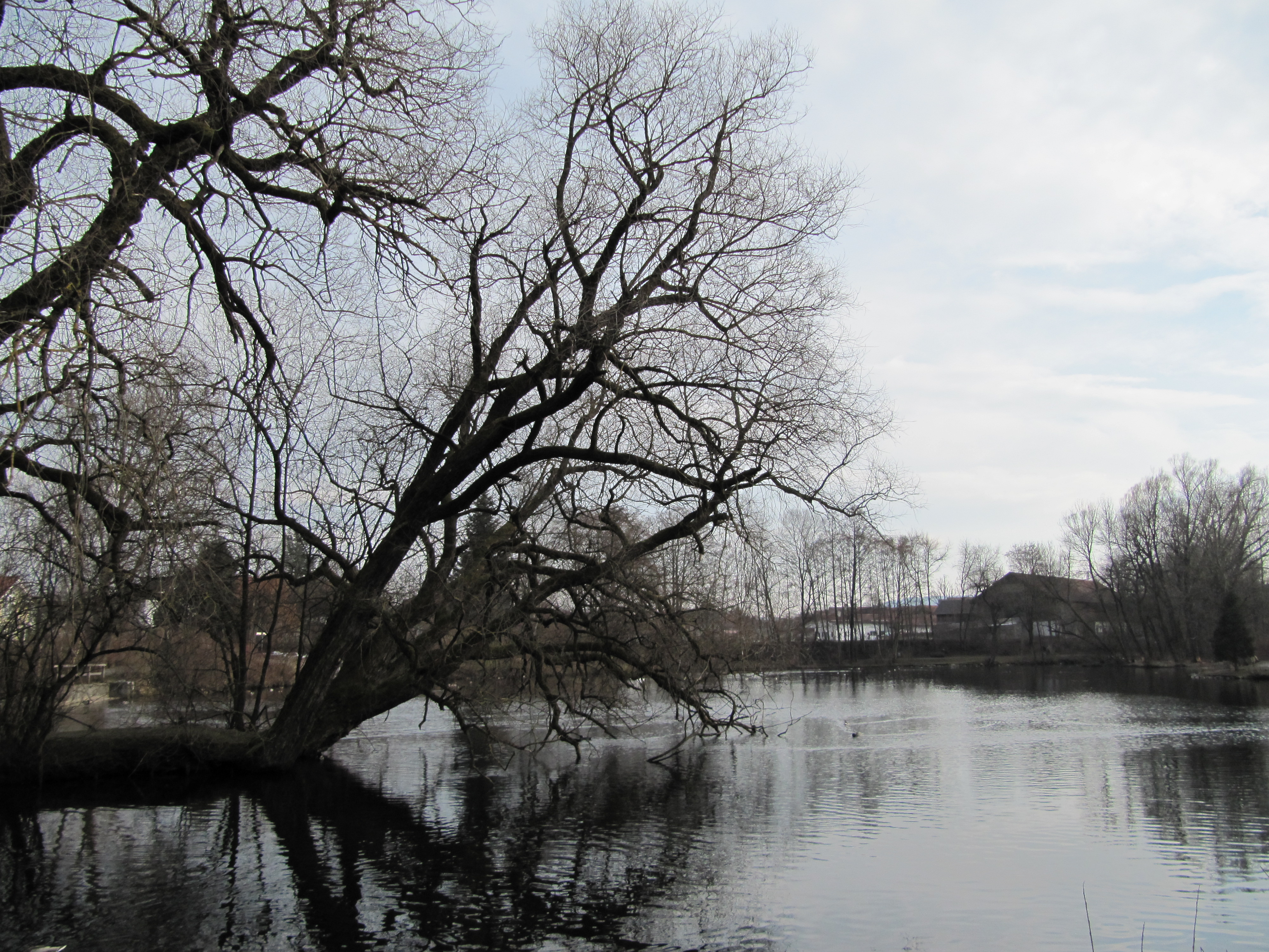 Gumpen at the Peitnach in Peiting